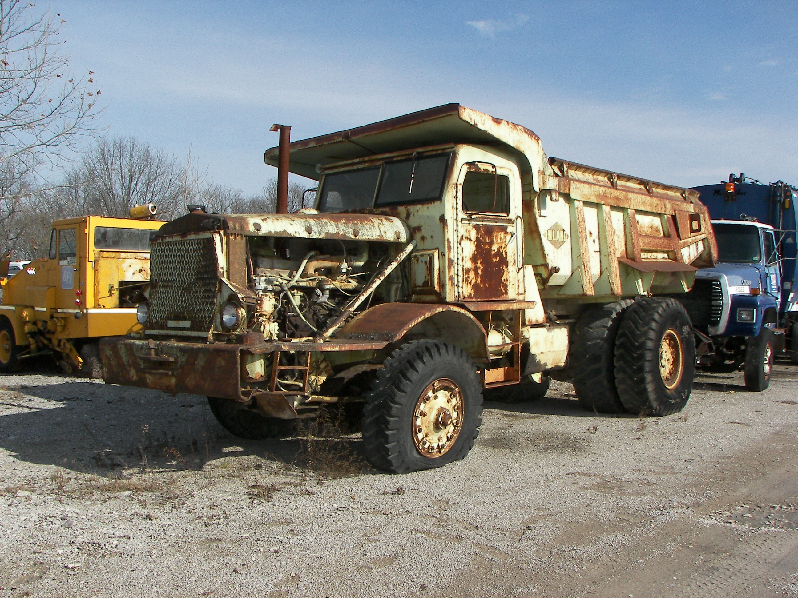 Euclid dump truck. Picture taken in a truck wrecking yard near Chester, IL.